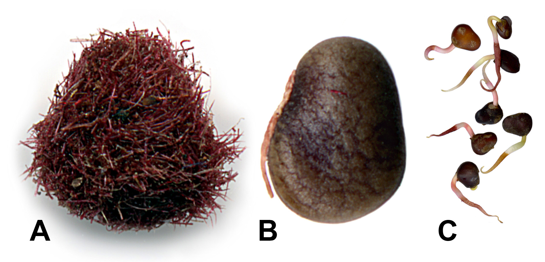 Rhus_coriaria A-fruit, B-stone, C-germination (author Mihailo Grbić).